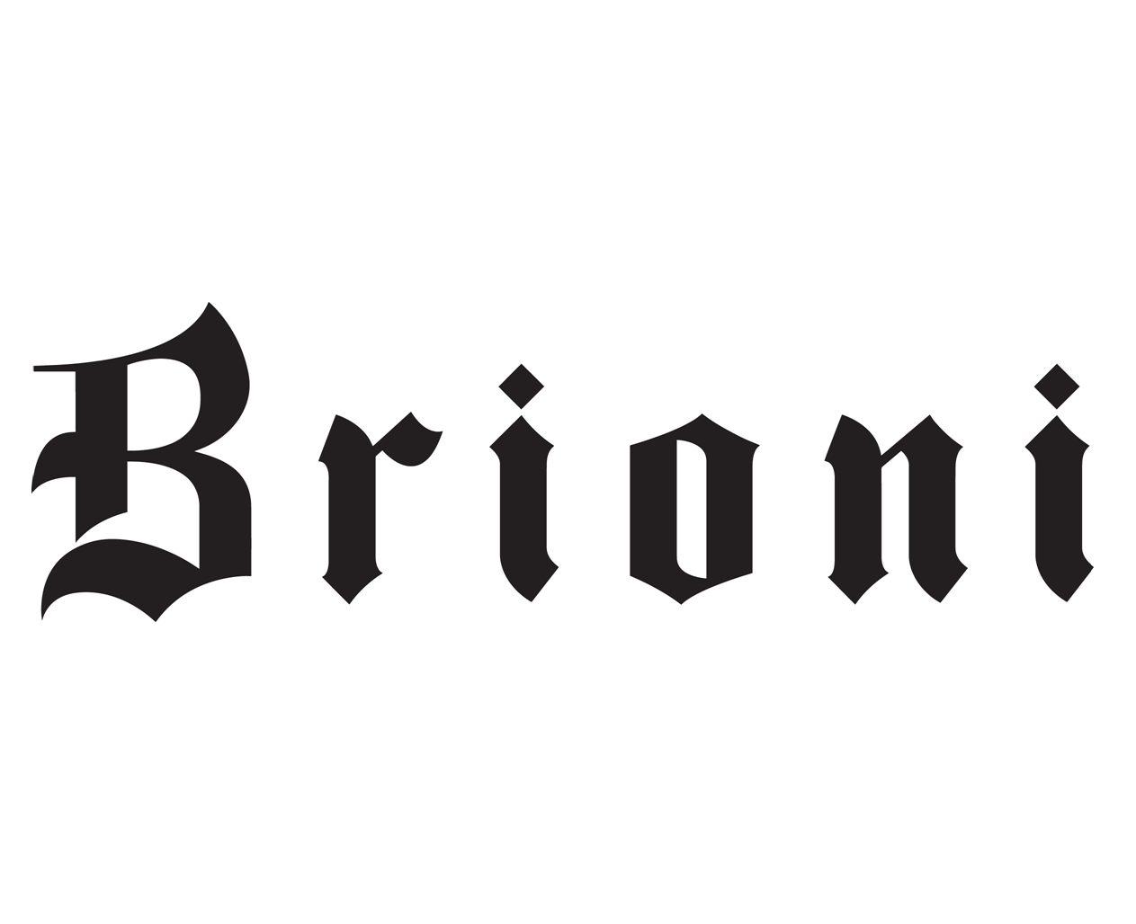 Brioni's official logo